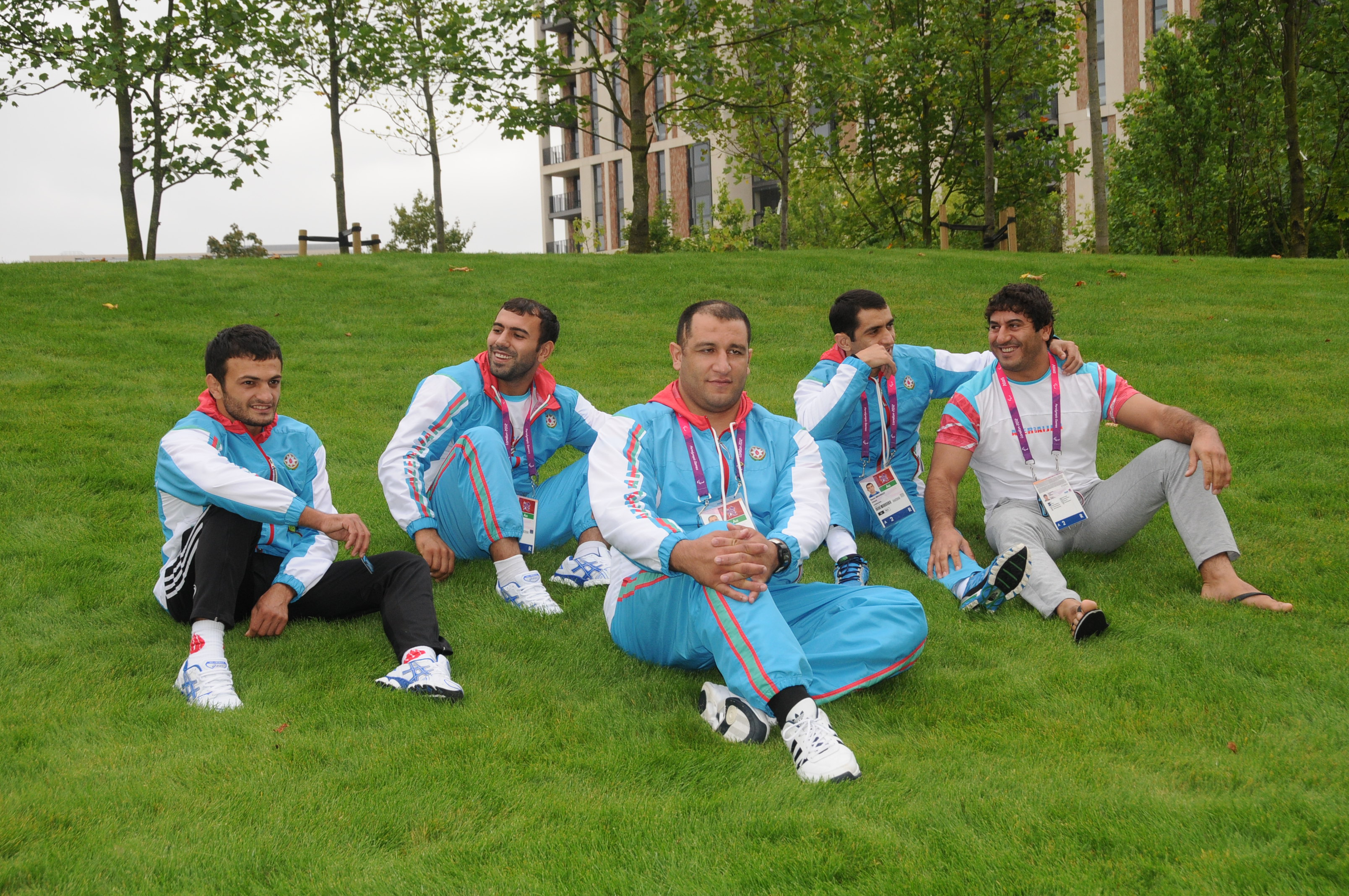 Azerbaijani judo team at the 2012 Summer Paralympics